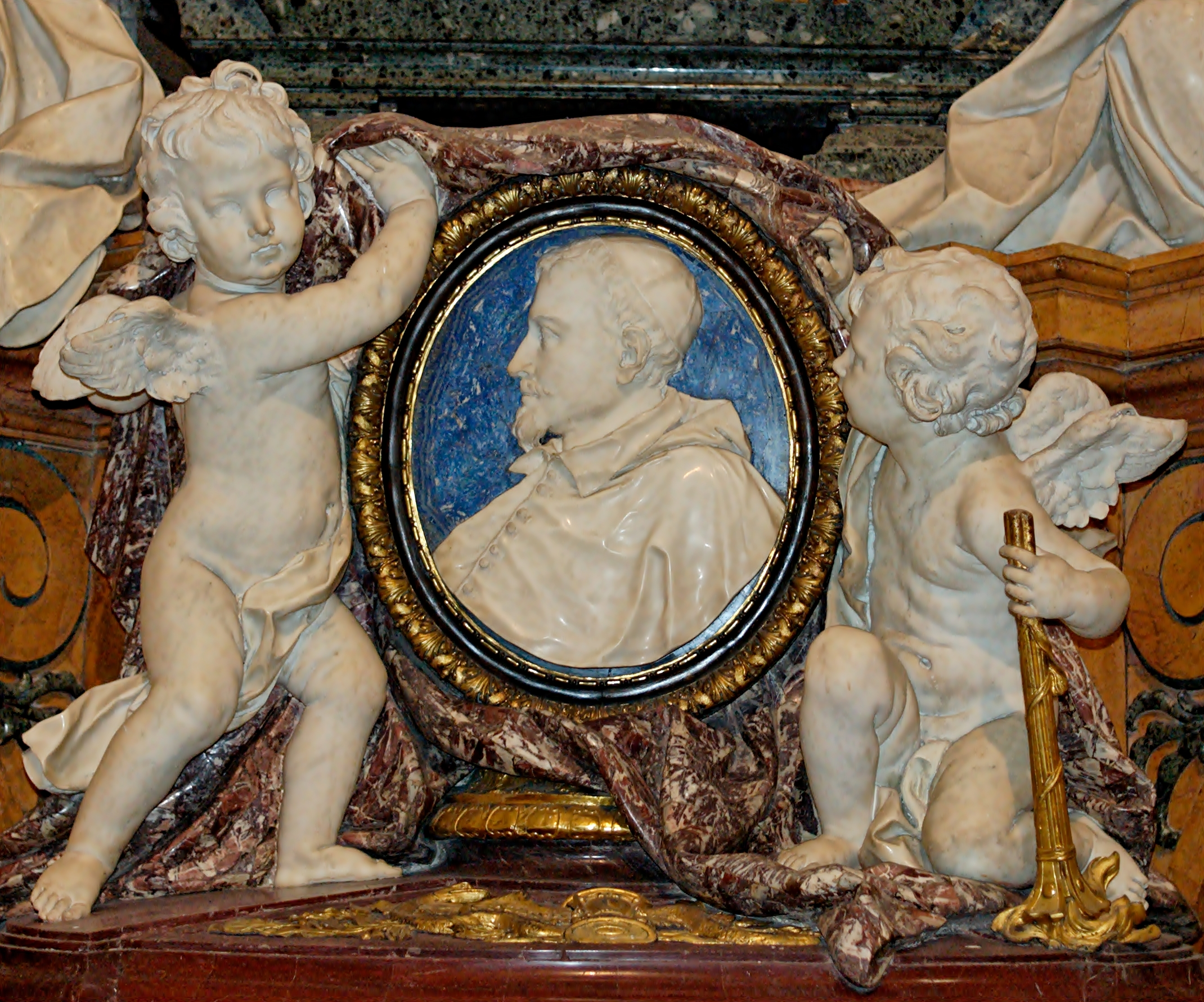 Medallion representing Ludovico cardinal Ludovisi, detail from the tomb of Pope Gregory XV Ludovisi and of his nephew, by Pierre Legros the Younger (1709-1714). Sant'Ignazio, Rome, Italy.